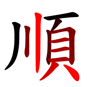 This 順-red.png image depicting the stroke order of the character 順 in red.png style. This image is part of the Commons:Stroke Order Project(zh-de-ja), a project to create a complete set of images depicting the right stroke order (Protocols). The 214 Kangxi radicals have been completed. We currently work on the most frequent characters. Help is welcome.